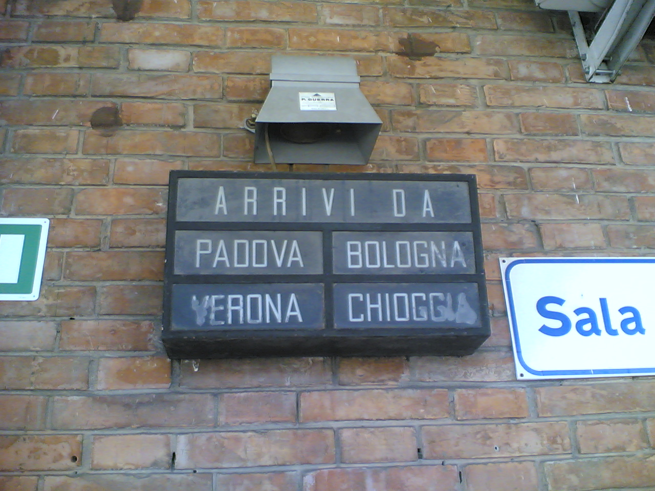 Acoustic and visual alarm in the train station of Rovigo